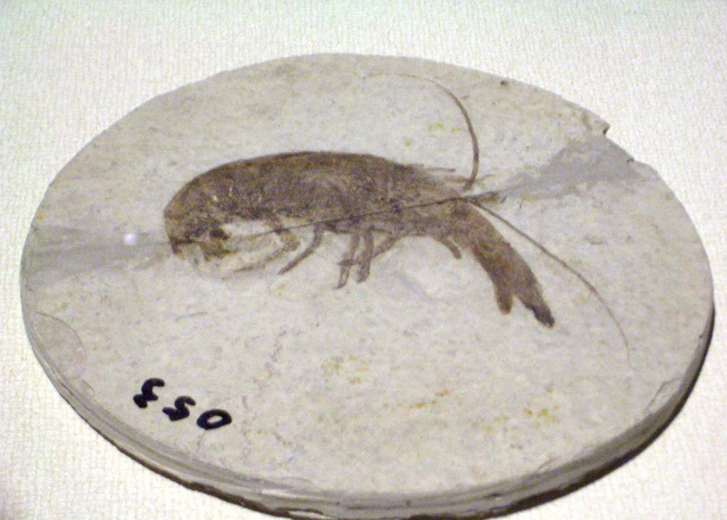 Cricoidoscelosus aethus fossil displayed in Hong Kong Science Museum